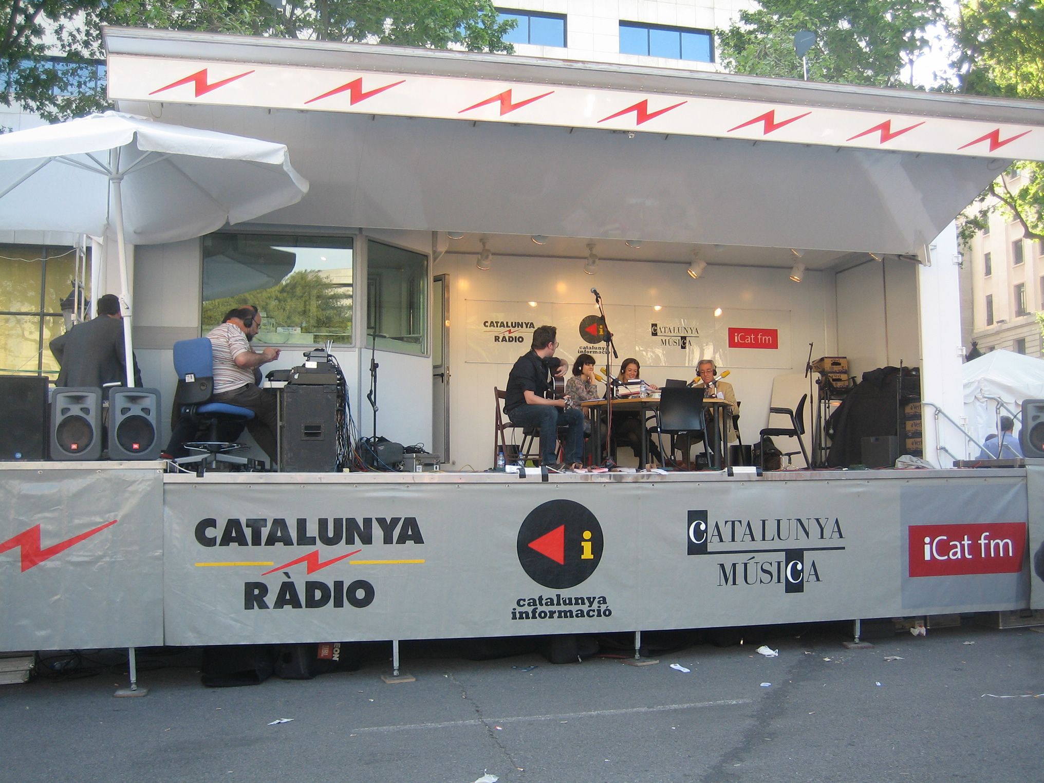 Catalunya Ràdio studio in Catalunya Square (Barcelona) during Sant Jordi 2009. Programa Hem de parlar